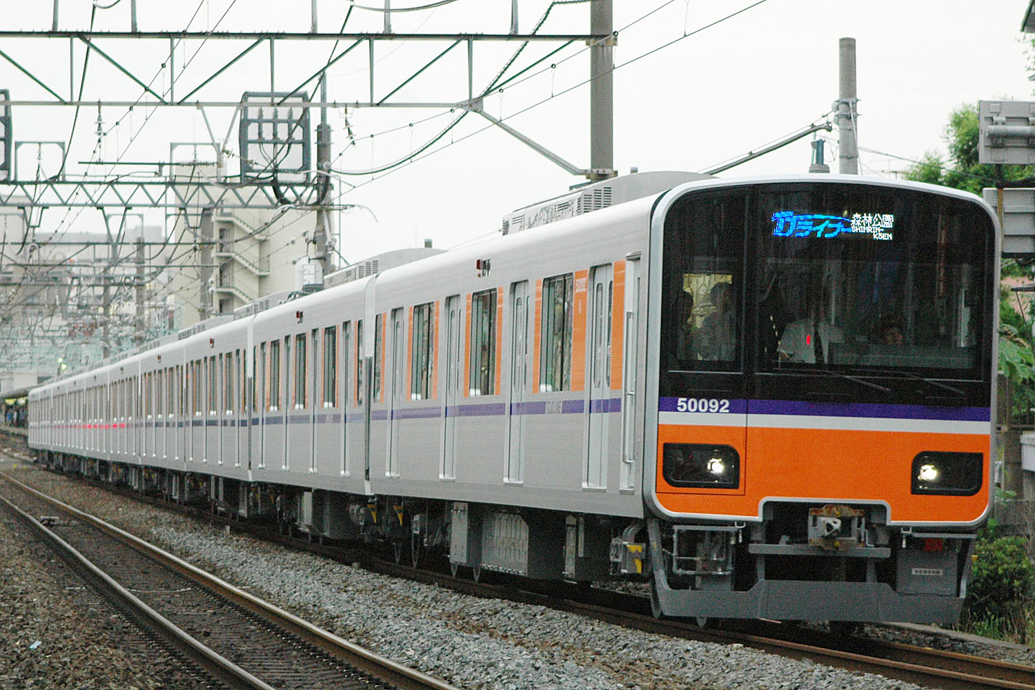 Tobu 50090 series EMU set 51092 on a Tobu Tojo Line TJ Liner service to Shinrinkoen between Naka-Itabashi and Tokiwadai stations